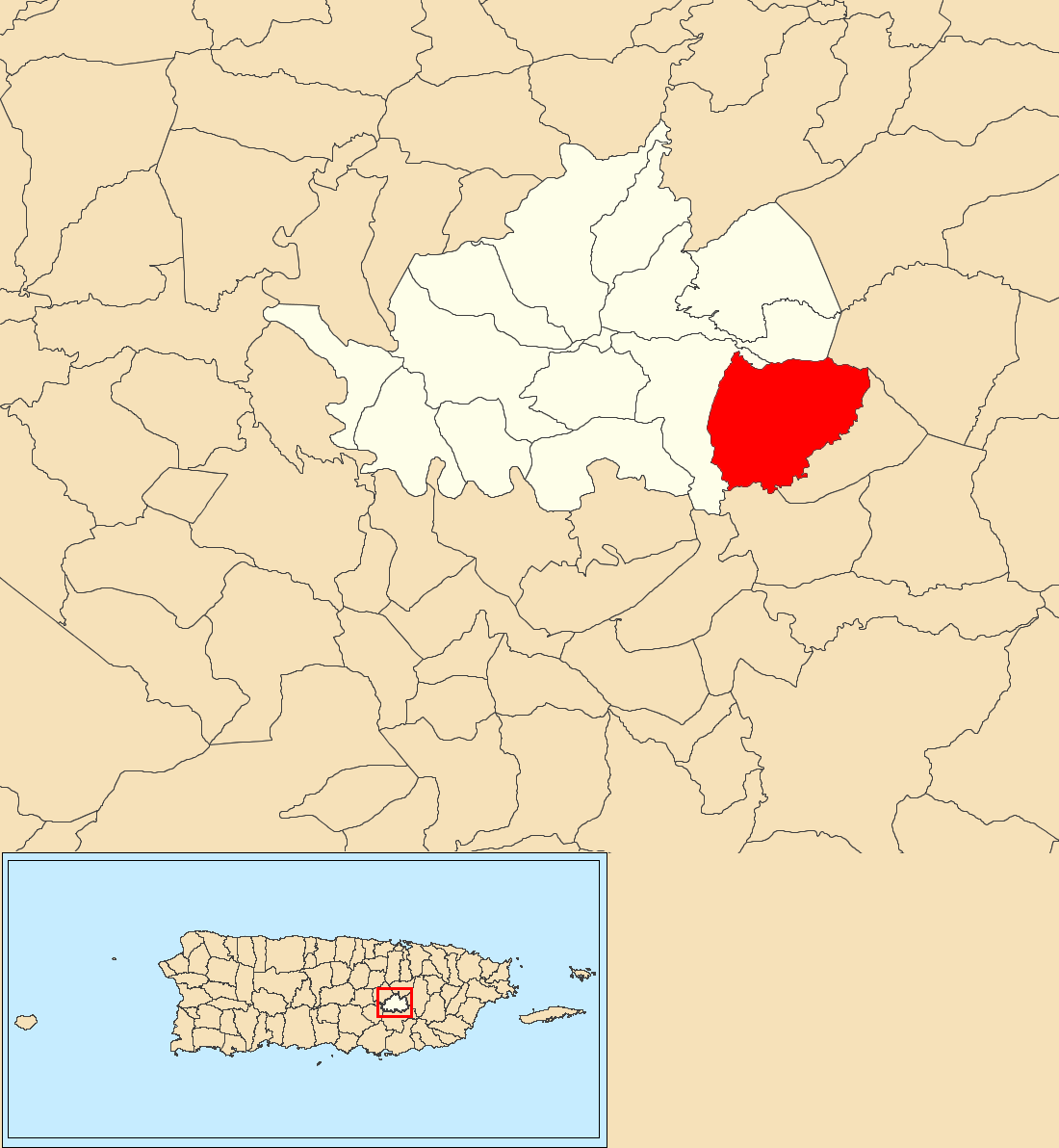 Beatriz, Cidra, Puerto Rico locator map